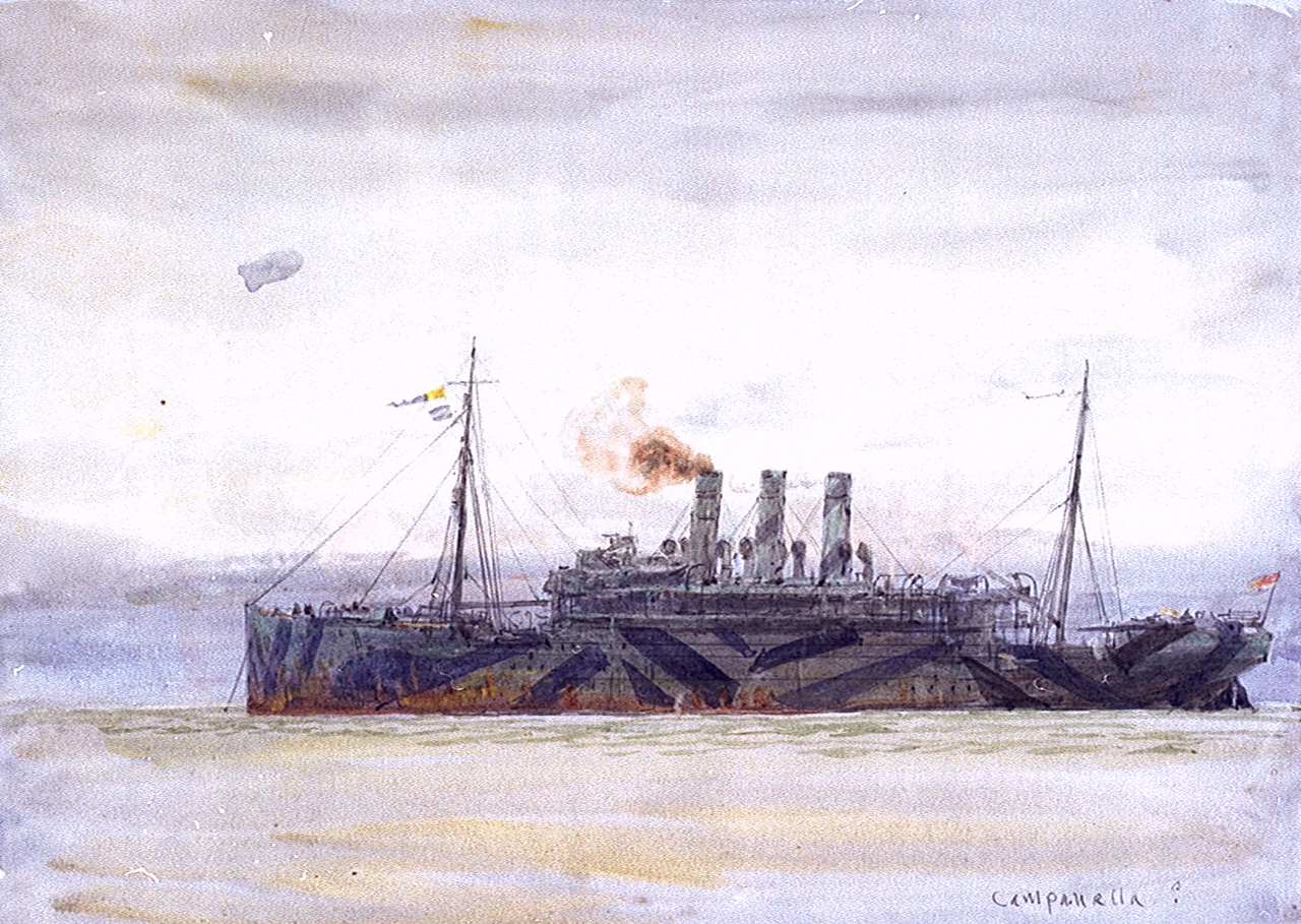 The armed merchant cruiser 'Columbella' at anchor off Portsmouth Inscribed by the artist 'Campanella ?' lower right, this is in fact the armed merchant cruiser 'Columbella', during 1918. She began life as the Anchor Line passenger/cargo liner 'Columbia', launched on 22 February 1902 and commencing her maiden voyage on 17 May that year. Hired by the Admiralty on 20 November 1914 for conversion to an armed merchant cruiser , she was converted on the Clyde, armed with eight 4.7-inch guns, and renamed 'Columbella'. In early 1917 she was rearmed with eight 6-inch guns and was at Portsmouth from 2 February to 28 March 1918 and again from 2 to 14 October 1918: these are the occasions when Wyllie would have seen her. She was returned to her owners in June 1919 and was broken up in 1929.